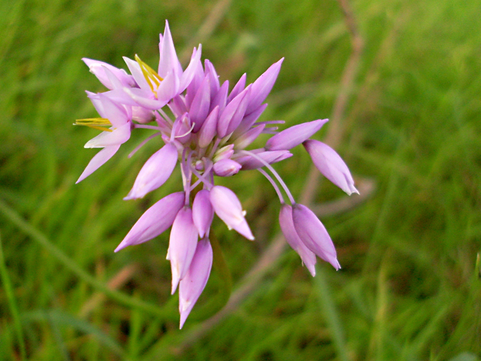 Sowerbaea laxiflora